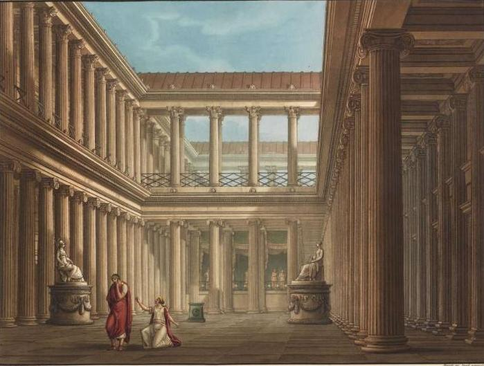 Set design for Act 2, Scene 1 of Giovanni Pacini's opera L'ultimo giorno di Pompei (production at La Scala Milan, 1827). The scene depicts the basilica of Pompeii.